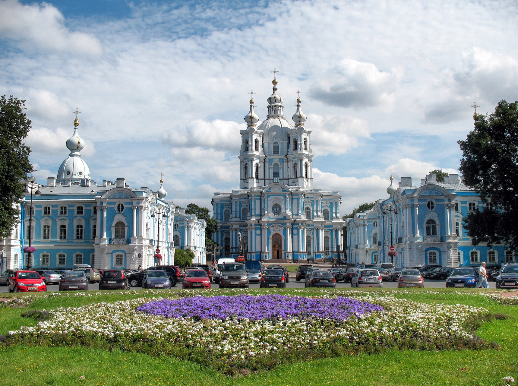 Saint Petersburg. Smolny Cathedral